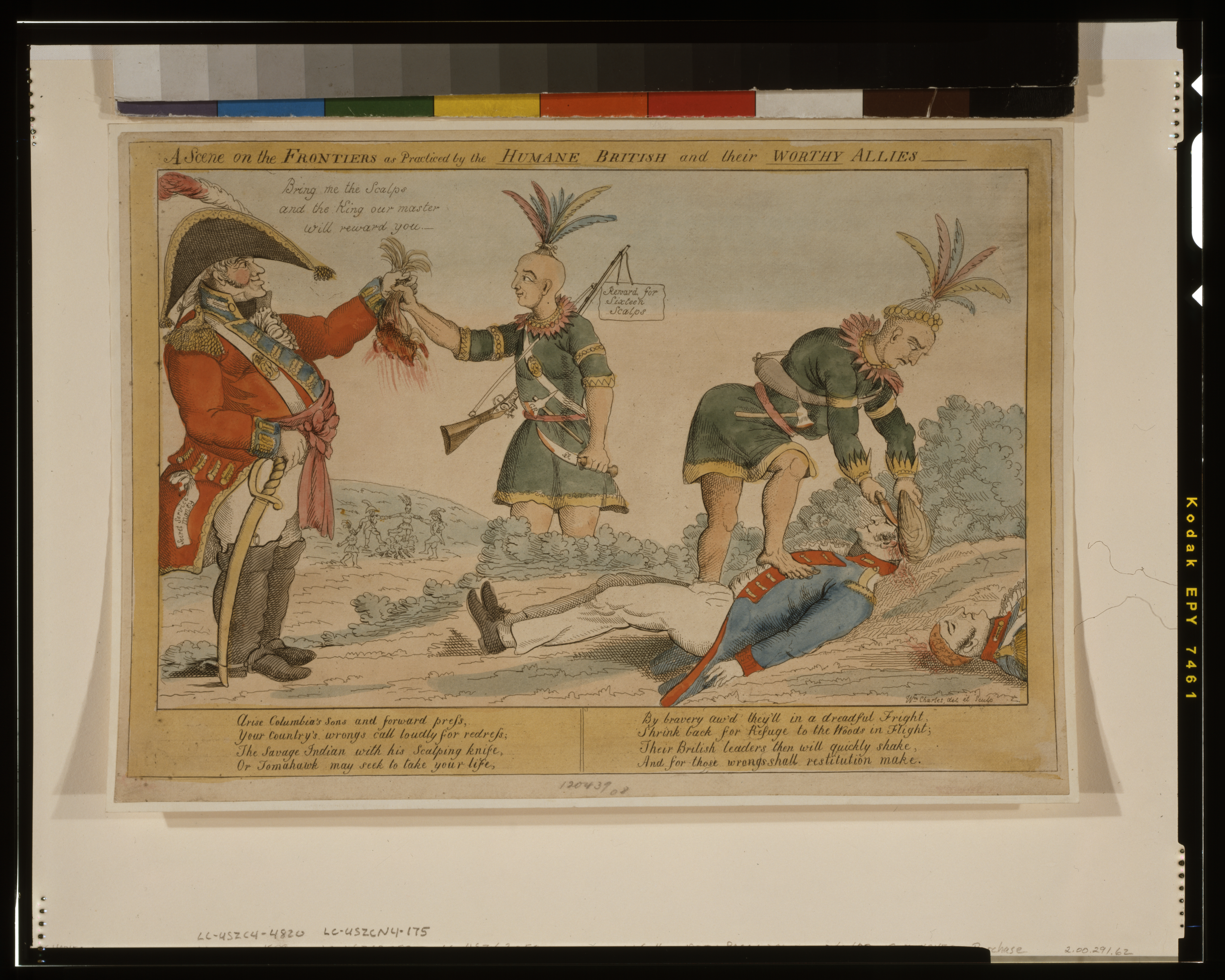 Political Cartoon as reaction to the War of 1812 titled "A scene on the frontiers as practiced by the "humane" British and their "worthy" allies" by William Charles. “ Charles denounces British and Indian depredations on the American frontier during the War of 1812, alluding specifically to the practice of offering bounties for American scalps. The cartoon may have been prompted by the August 1812 massacre at Chicago and the purchase of American scalps there by British Colonel Proctor. On the left a British officer receives a bloody scalp from an Indian, who has a purse with "Reward for Sixteen Scalps" hanging from his flintlock. The Indian's knife and tomahawk bear the initials "GR" (for Georgius Rex, i.e., King George). The officer says, "Bring me the Scalps and the King our master will reward you." From a button on the officer's coat hangs a tag or sack labeled "Secret Service Money." At right, another Indian is in the process of scalping a fallen soldier; another dead, scalped soldier lies nearby. In the background two Indians and two soldiers dance about a campfire. Below are eight lines of verse: "Arise Columbia's Sons and forward press, / Your Country's wrongs call loudly for redress; / The Savage Indian with his Scalping knife, / Or Tomahawk may seek to take your life; / By bravery aw'd they'll in a dreadful Fright, / Shrink back for Refuge to the Woods in Flight; / Their British leaders then will quickly shake, / And for those wrongs shall restitution make." ”